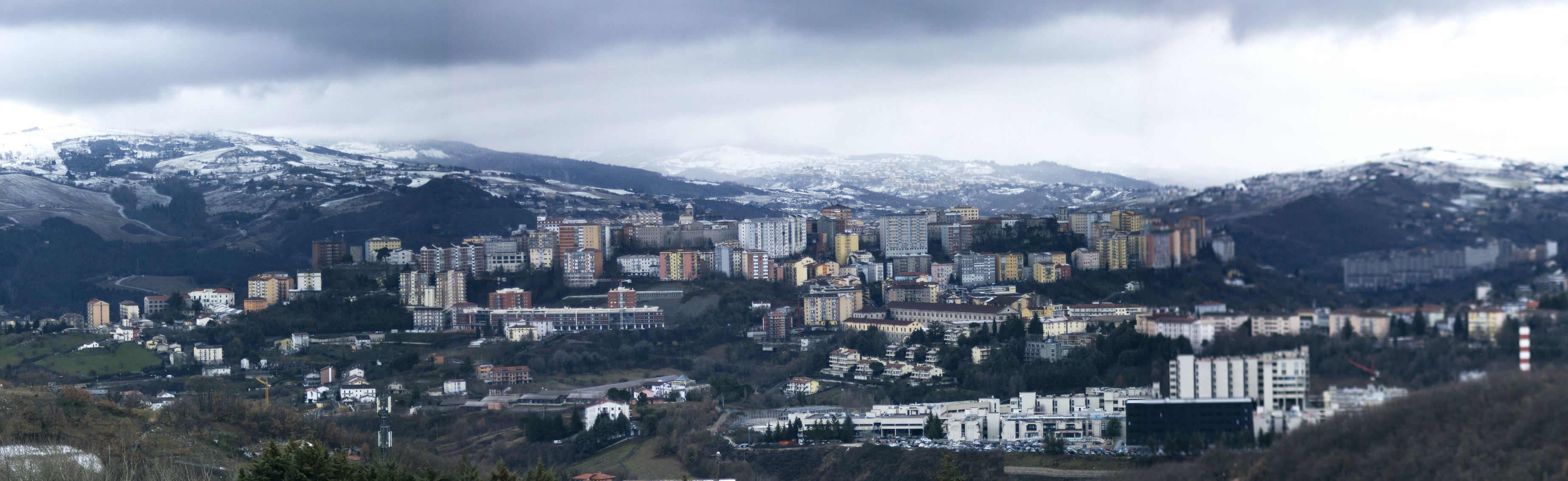 Potenza